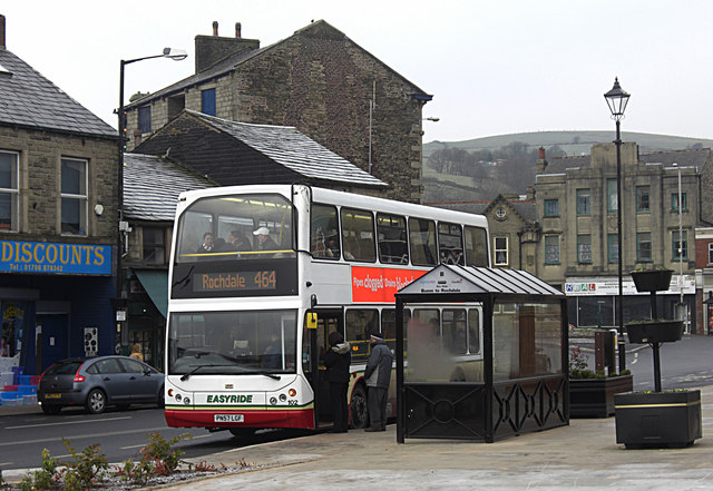 Bus station in Bacup, Lancashire, England. A the stop is Rossendale Transport's 464 service to Rochdale.